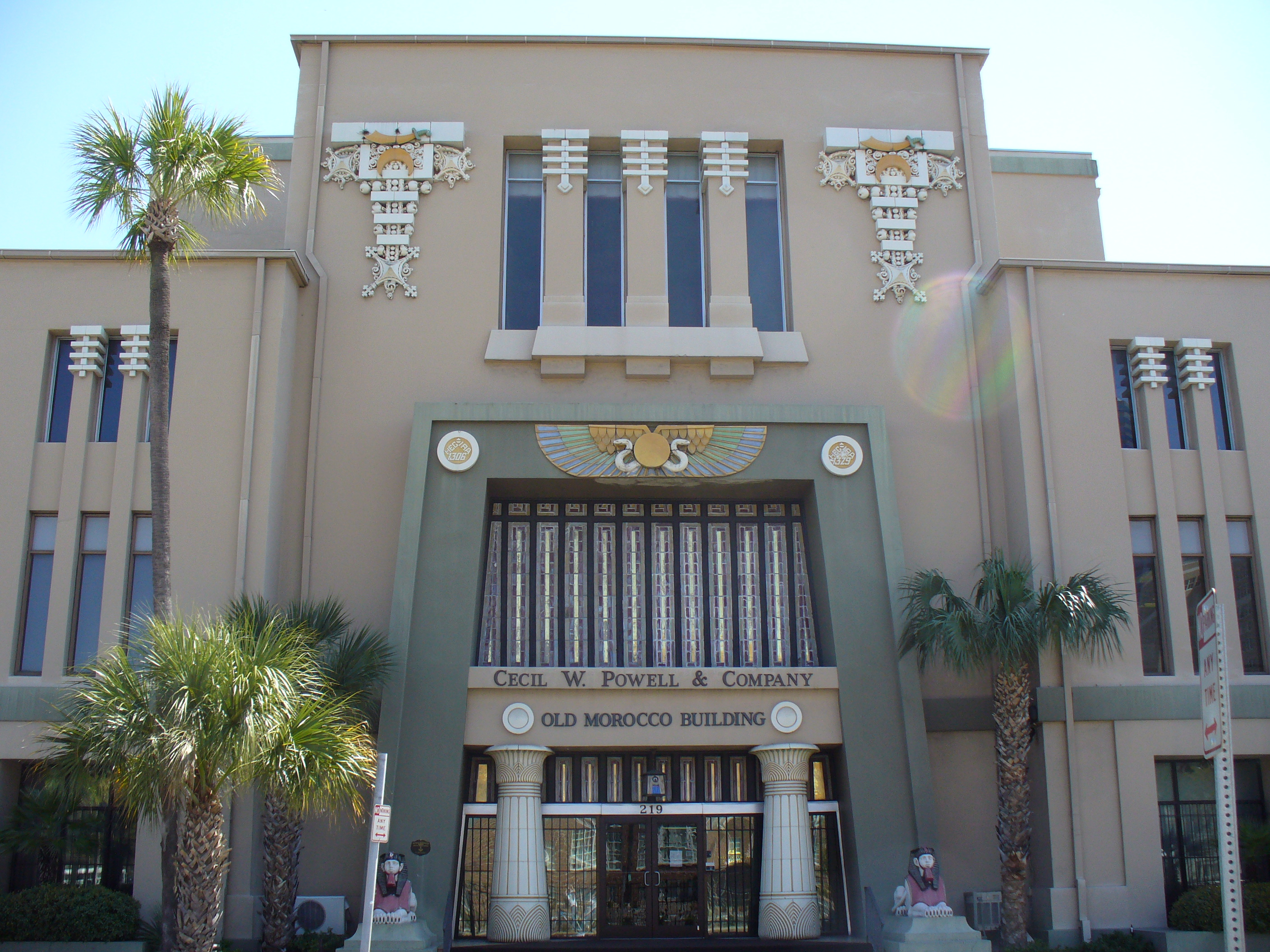 Moroco Temple, Jacksonville, FL